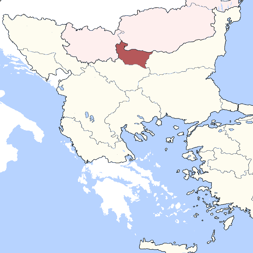 Vidin Eyalet in 1850s. Tributary states of the Ottoman Empire are shown in pink. According to the information of this map: [1]